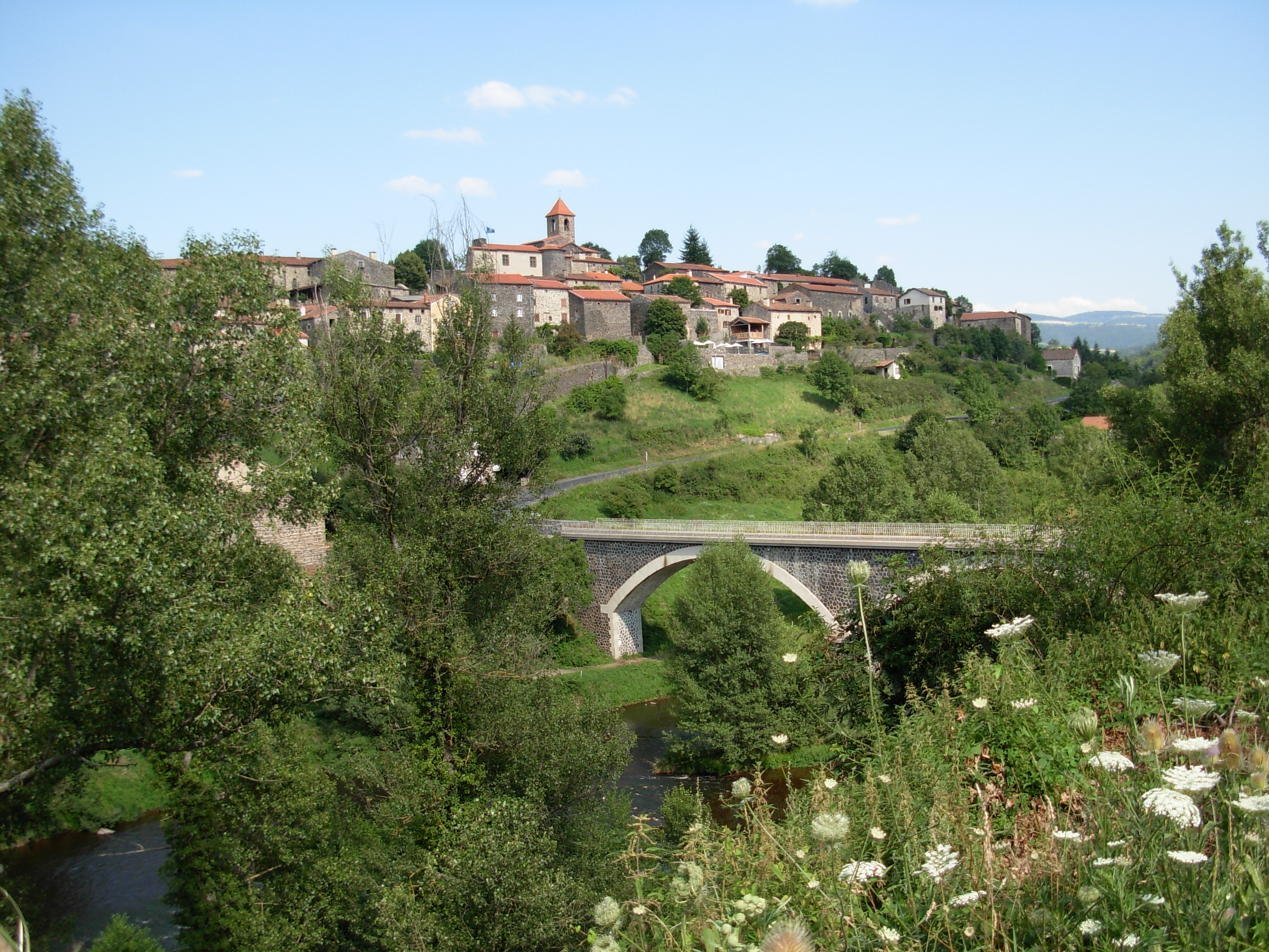 Saint-Arcons-d'Allier: Bridge, trees and village